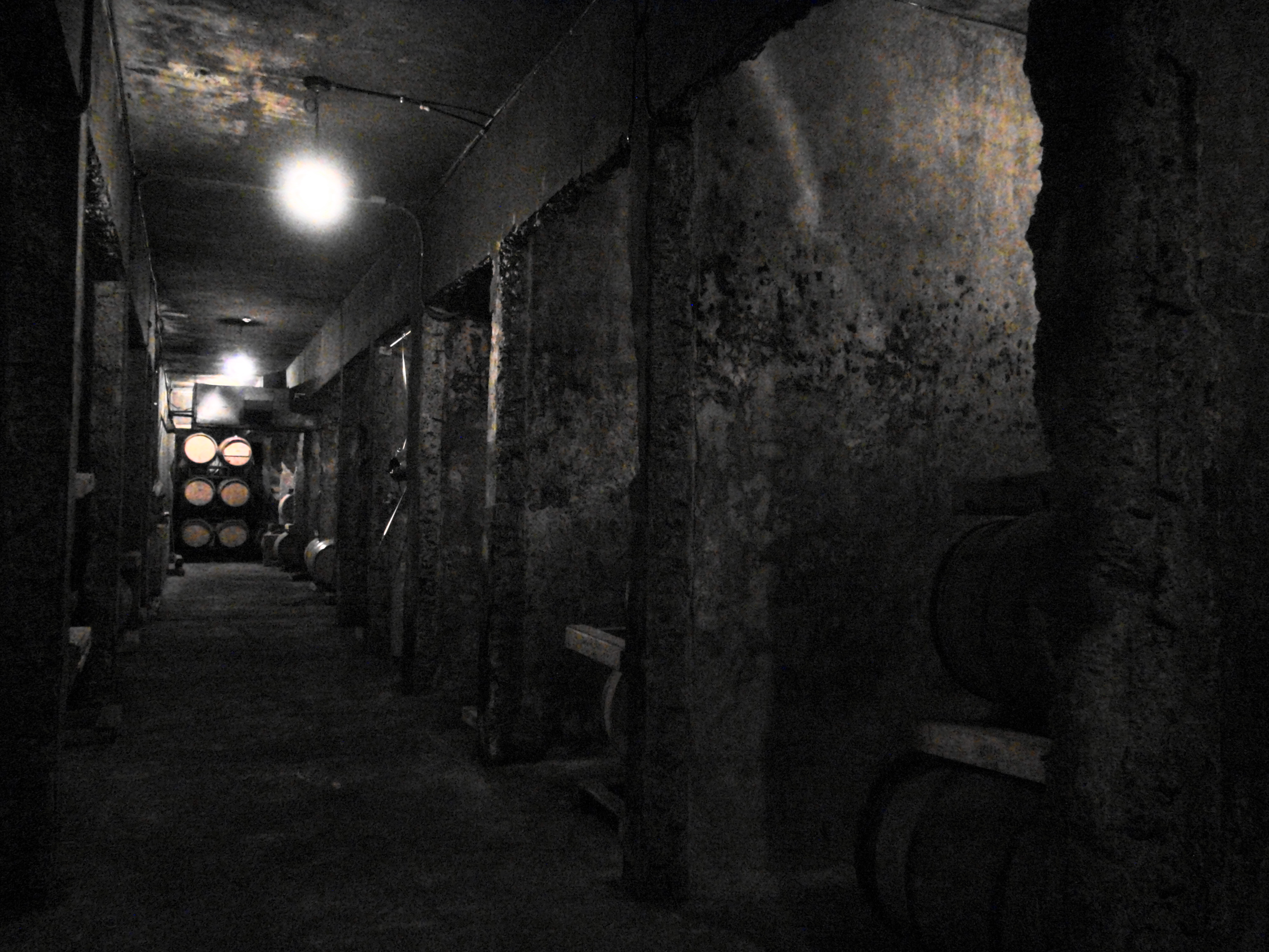 Underground wine cellar winery Lumiere